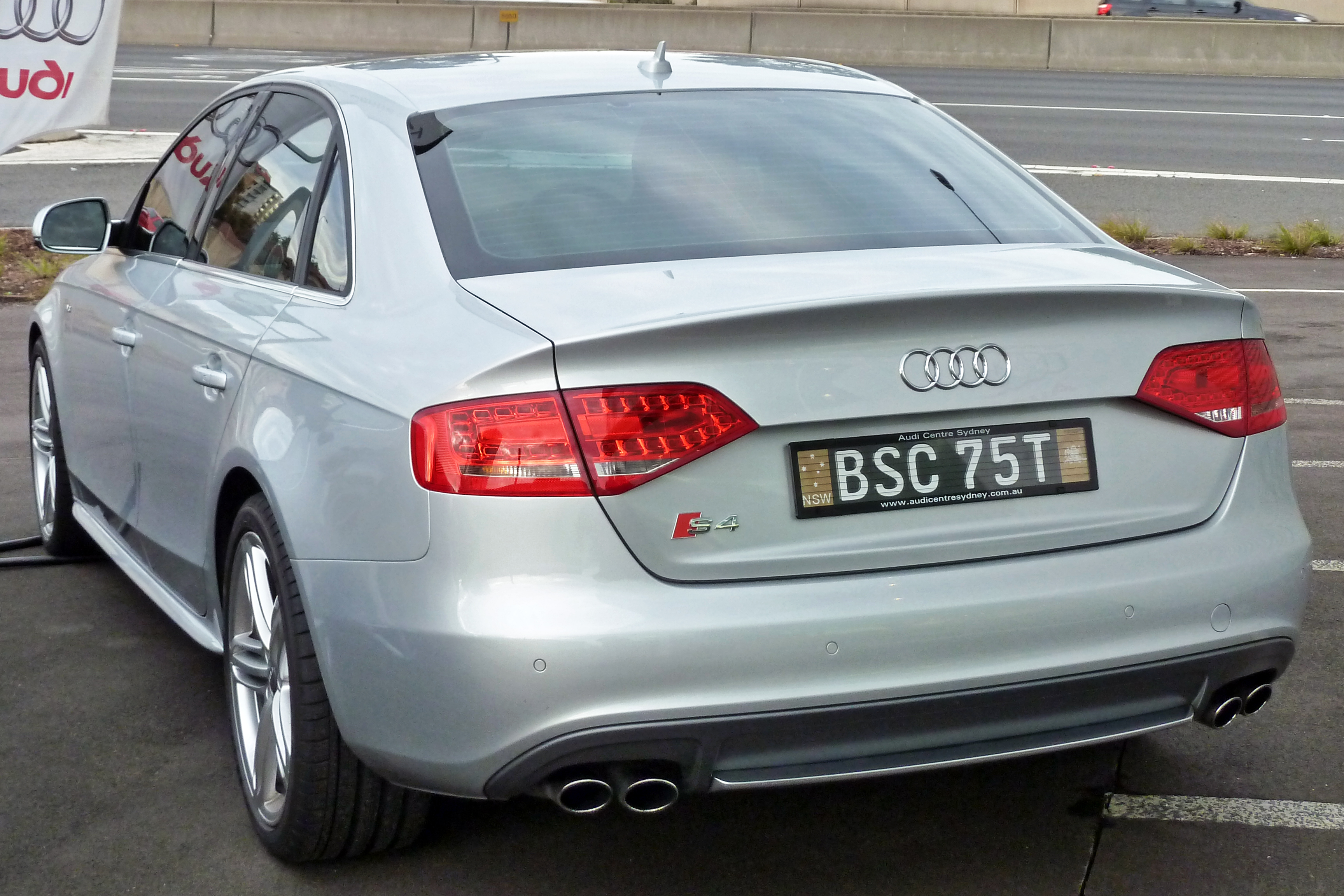 2009 Audi S4 (B8) sedan. Photographed at the Audi Centre Sydney, Zetland, New South Wales, Australia.